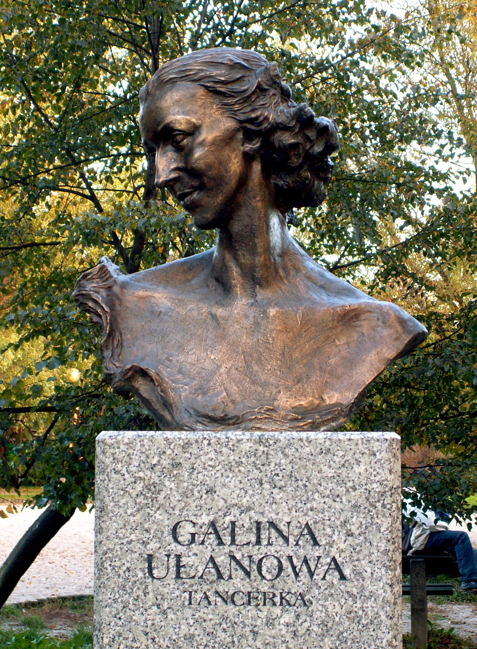 Bust of Galina Ułanowa in Celebrity Alley in Kielce (Poland)